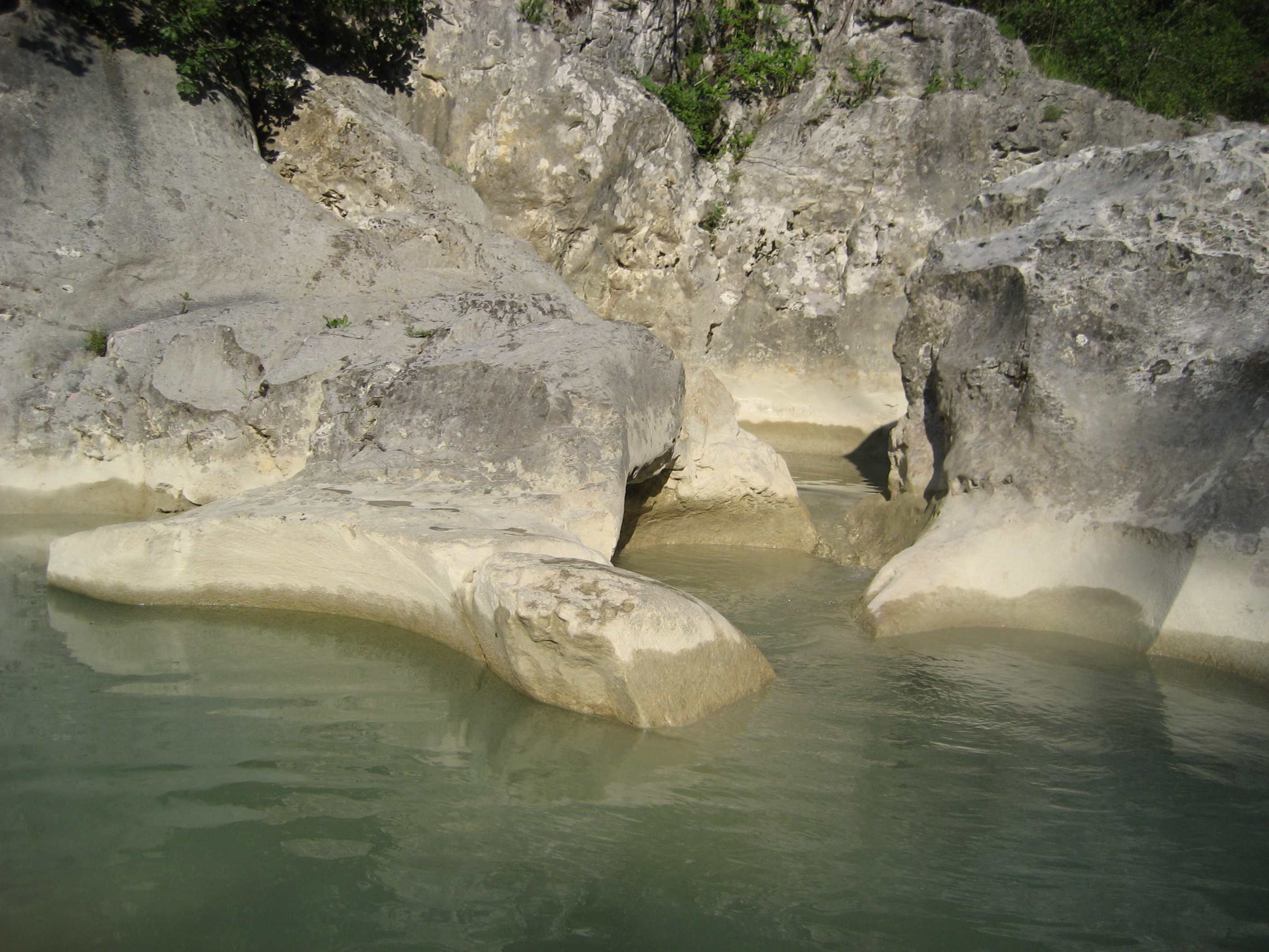 River Mirna, near Kotli, Croatia